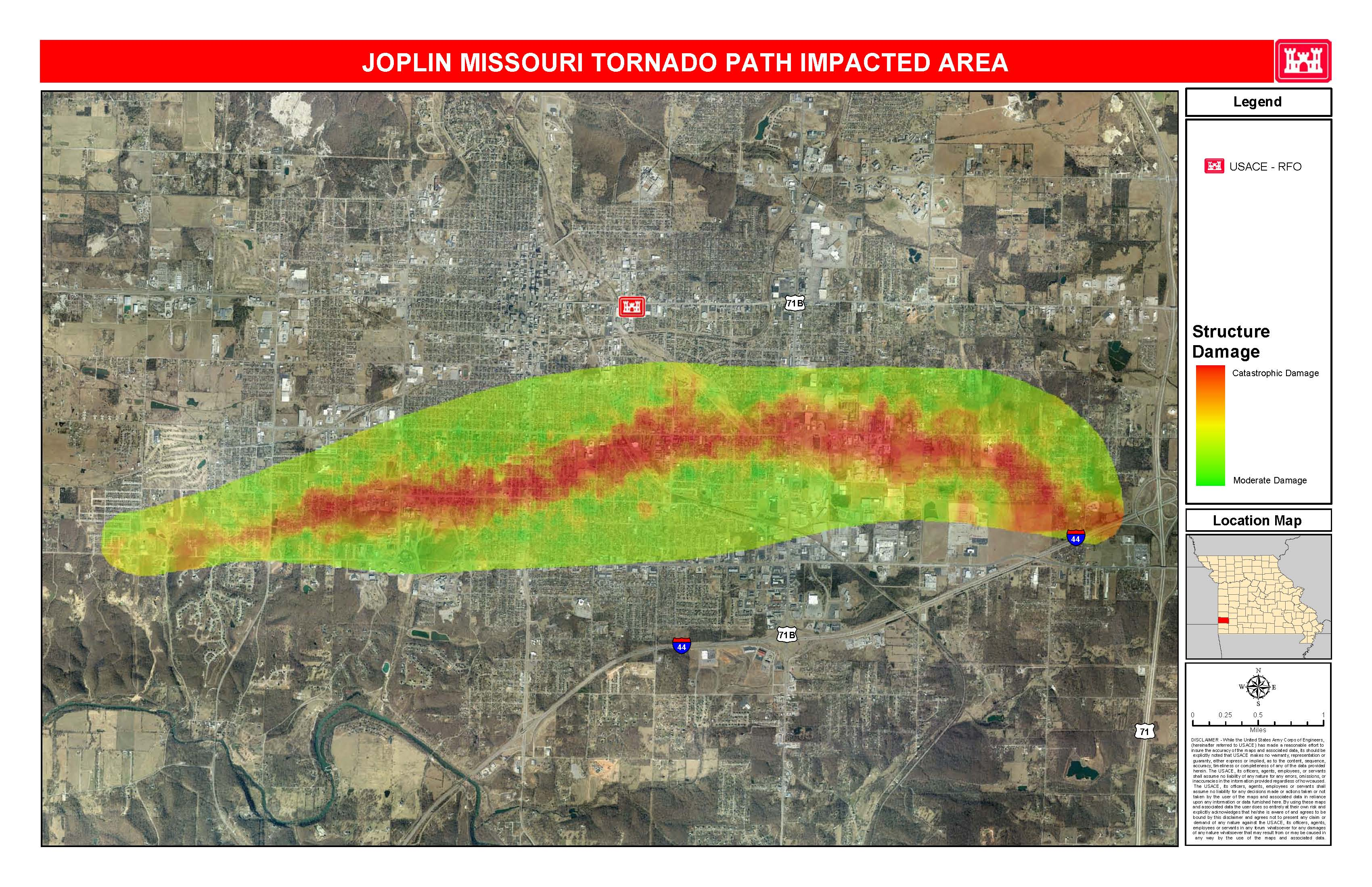 U.S. Army Corps of Engineers map showing damage of 2011 Joplin tornado